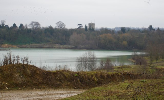 Aylesford church from across the sand pit. East of Eccles Road, in spite of the water this sand quarry is still in production.